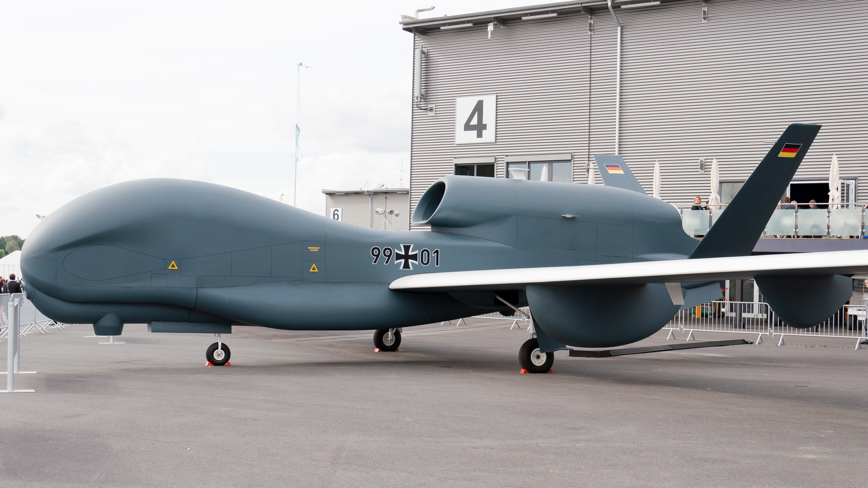 German Luftwaffe 99-01 Northrop Grumman/Cassidian RQ-4B EuroHawk mock-up at ILA Berlin Air Show 2012.